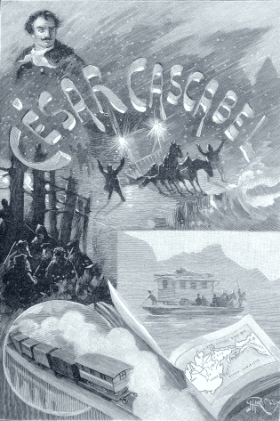 An illustration from Jules Verne's novel "César Cascabel" (1890) drawn by George Roux.